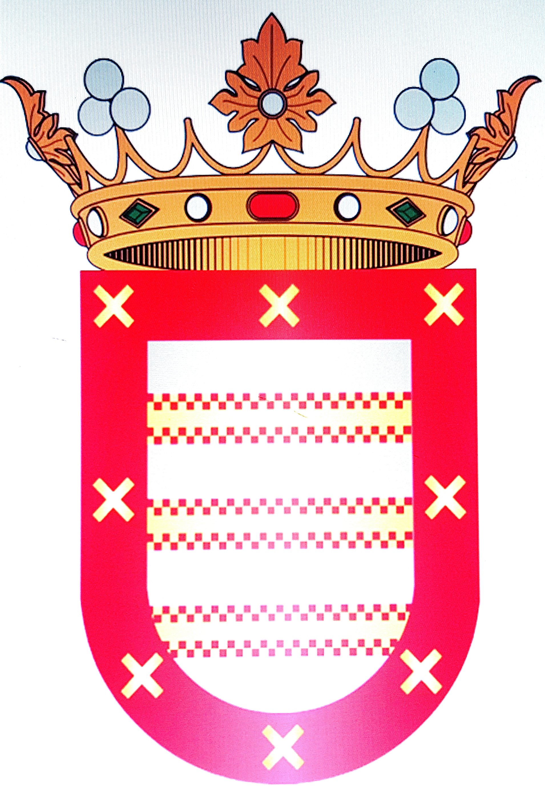 Coat of arms. Arias de Saavedra. Marquess of Moscoso